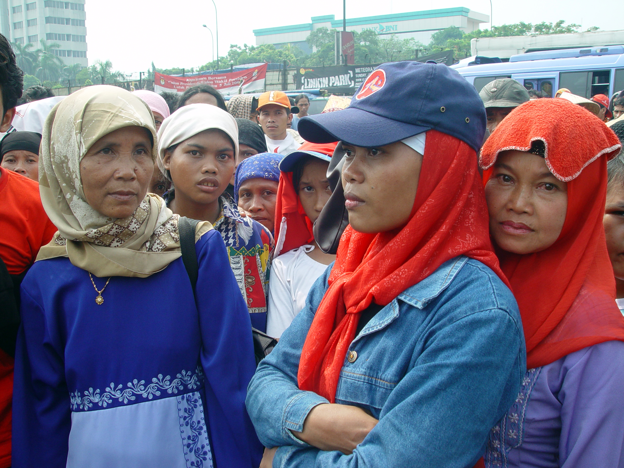 Farmer land rights protest in Jakarta, Indonesia.